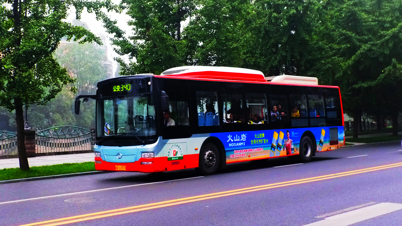 CDK6121 on Middle Jinli Rd.